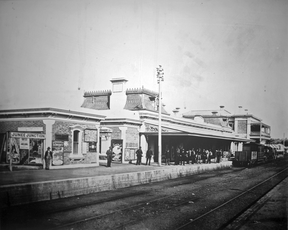 Junee Junction Railway Station in 1890.